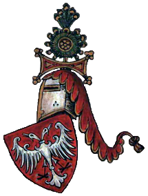 Modern reconstruction of CoA of House of Nemanja, made by Aleksandar Palavestra, based the Fojnica Armorial (17th century).